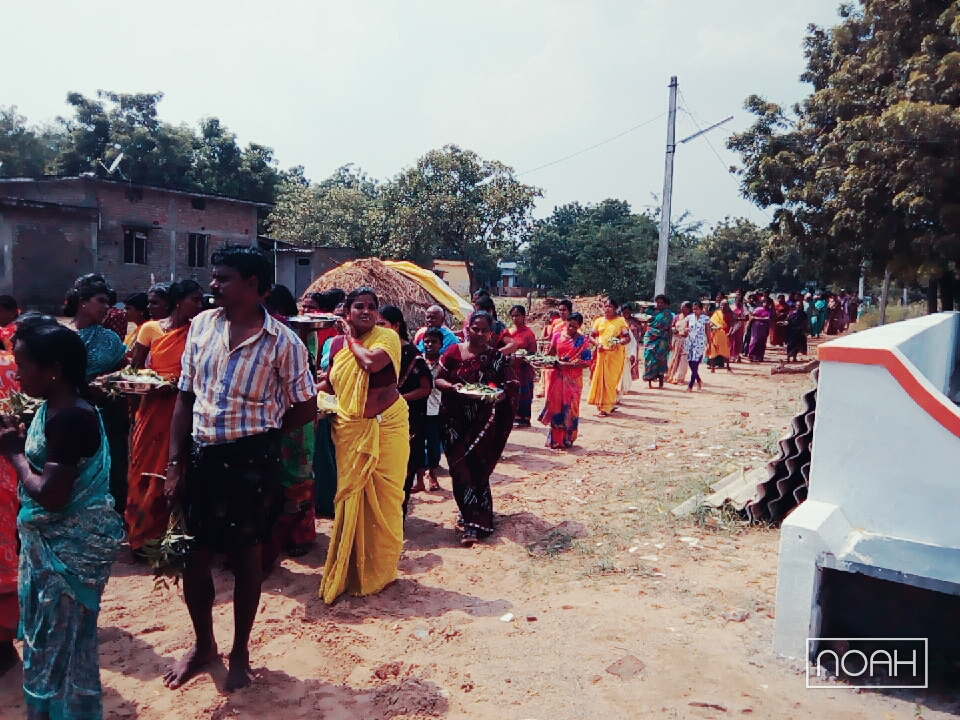 fourth image